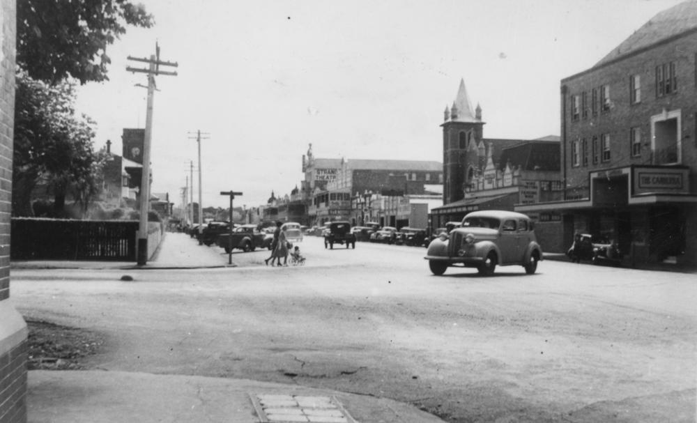 Canberra Hotel, Toowoomba, Queensland, ca. 1948. Brick building, the Canberra Hotel in Toowoomba.